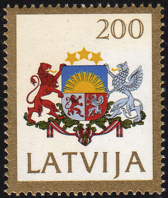 Postage stamp issued by Latvia 1991 depicting the national coat of arms.